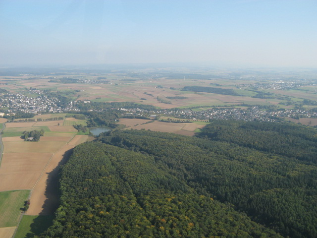 Aerial image of the forest between Hadamar-Niederhadamar, Elz-Malmeneich and Hundsangen.